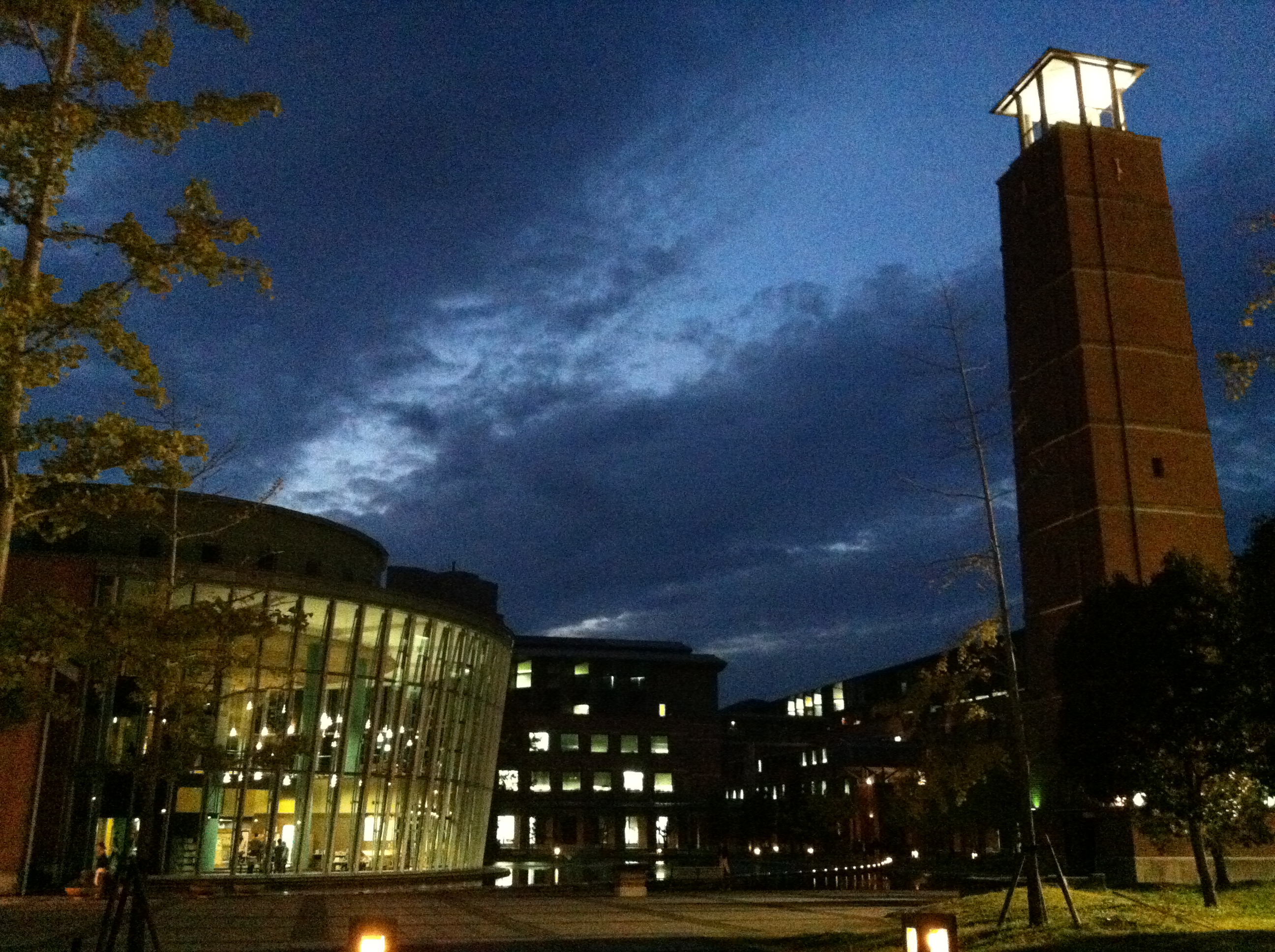 KUT